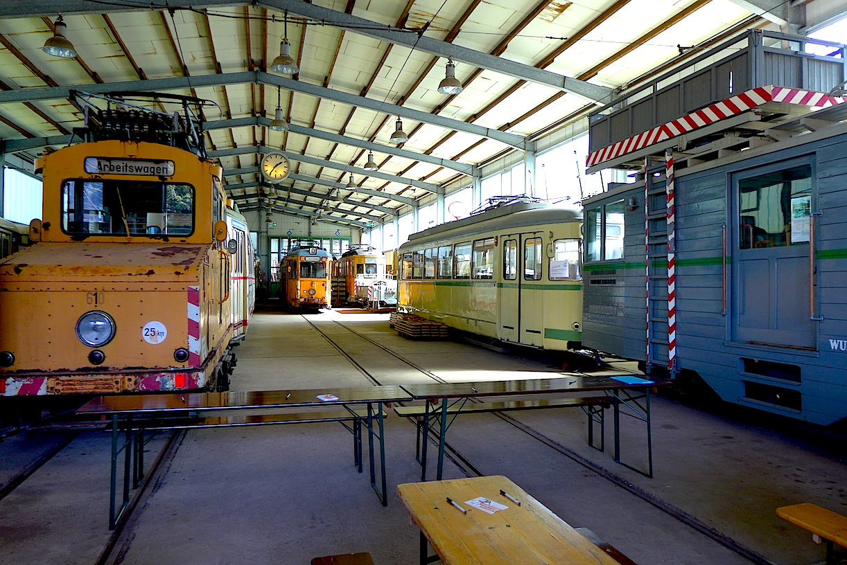 "Blade track" - the tourist marked route around the German city of Solingen (Northern Rhine-Westphalia). First stage: Gräfrath - Kohlfurth, 6,3 km.